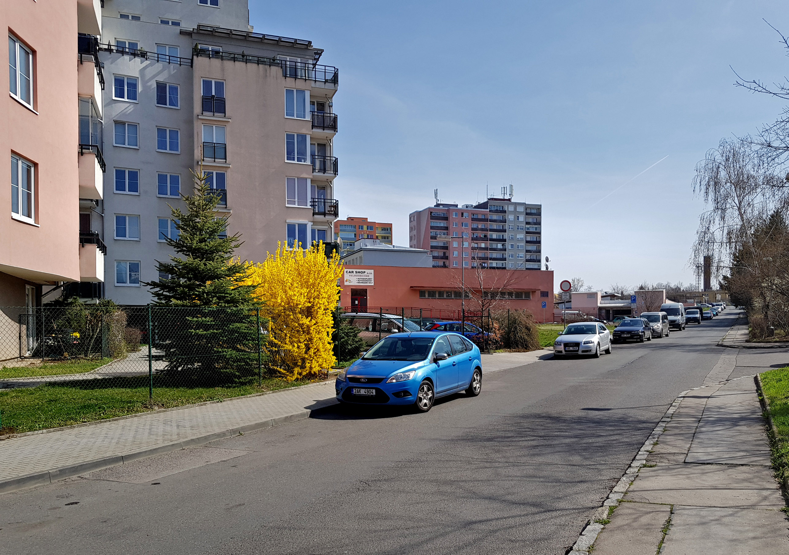 West part of Pasteurova street, Prague.